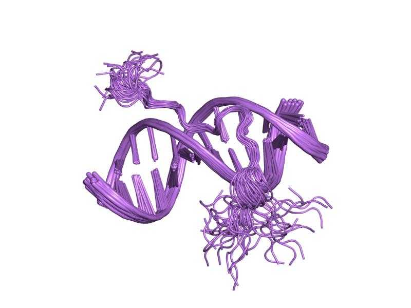 Cartoon representation of the molecular structure of protein registered with 2eze code.